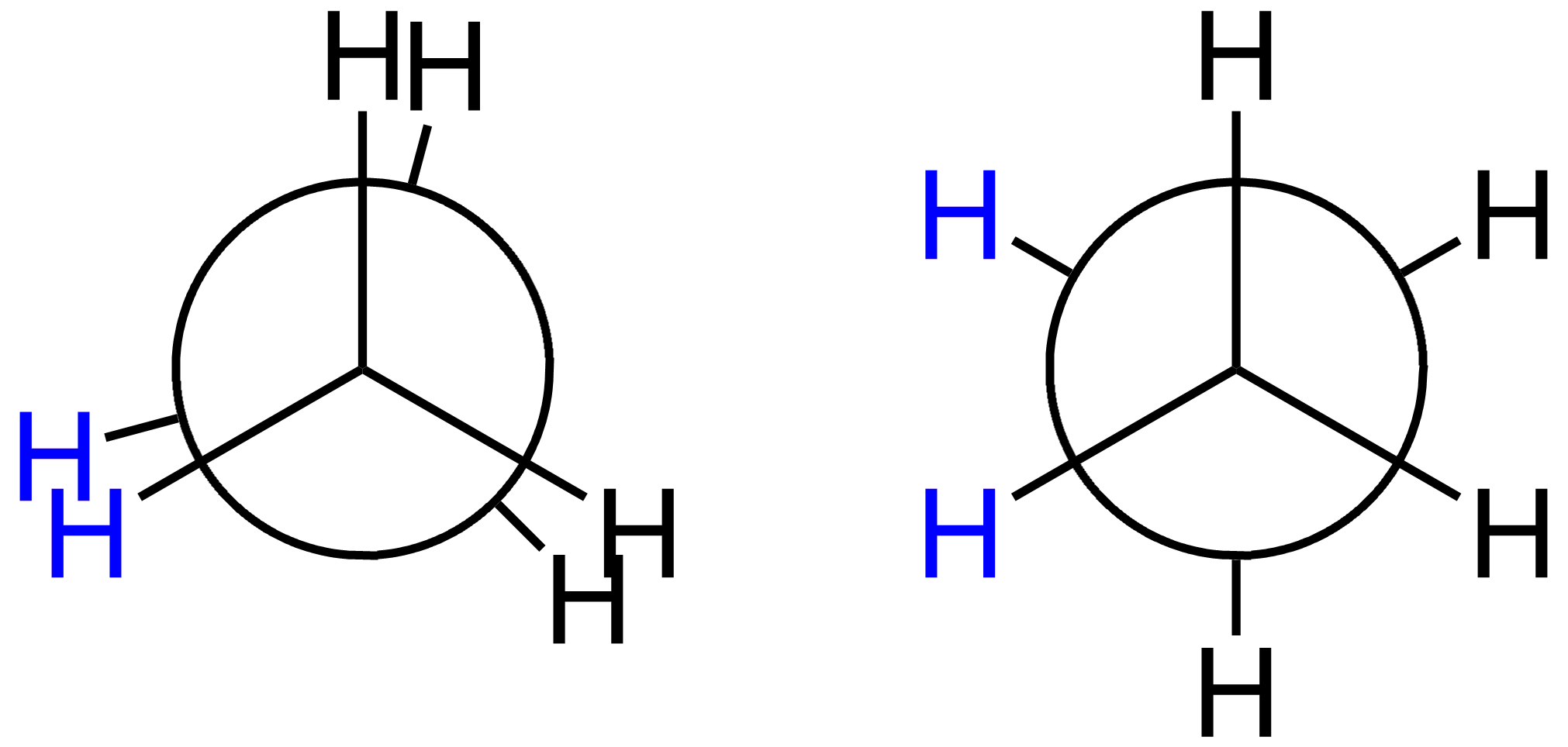 The two conformations of ethane shown as Newman projections